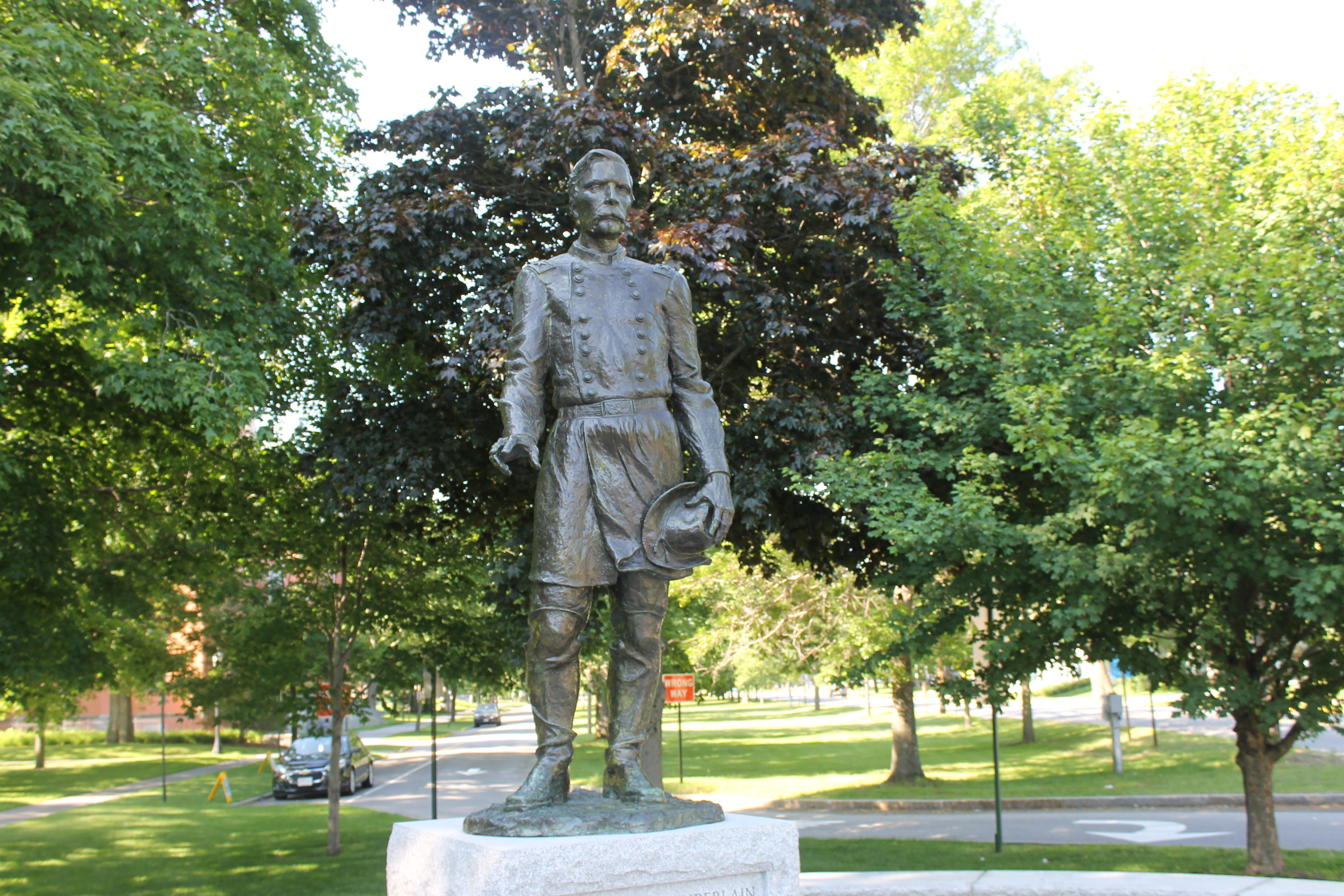 I took photo of Joshua L. Chamberlain statue at Bowdoin College in Brunswick, ME, with Canon camera. Not copyrighted